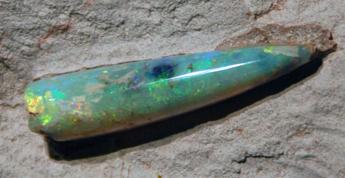 South Australia’s Coober Pedy Opal Field is famous for having fossils that have been replaced by precious opal (hydrous silica - SiO2·nH2O). Recovered opalized fossils from Coober Pedy include bivalves, gastropods, belemnites, crinoids, ichthyosaurs, and plesiosaurs. Here are two examples of opalized belemnites. Belemnites are a group of extinct cephalopods having a squid-like body and a solid, calcareous, internal, elongated, bullet-shaped skeleton called a guard. Two species of Peratobelus belemnites have been reported from the Coober Pedy area: Peratobelus oxys Tenison-Woods, 1883 and Peratobelus bauhinianus Skwarko, 1966. The material shown below appears consistent with Peratobelus oxys. Classification: Animalia, Mollusca, Cephalopoda, Coleoidea, Belemnitida, Dimitobelidae Locality: unrecorded mine field in Coober Pedy Opal Field, north-central South Australia State, southern Australia Stratigraphy: “weathered zone” of the Bulldog Shale, Marree Subgroup, Aptian Stage, upper Lower Cretaceous Some info. from: Williamson, T. 2006. Systematics and Biostratigraphy of Australian Early Cretaceous Belemnites with Contributions to the Timescale and Palaeoenvironmental Assessment of the Australian Early Cretaceous System Derived from Stable Isotope Proxies. Ph.D. dissertation. James Cook University. Townsville, Queensland, Australia. 5+50+25+47+46+9+18+(21) pp. 5 pls.